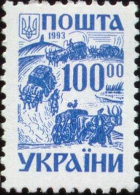 Stamp of Ukraine